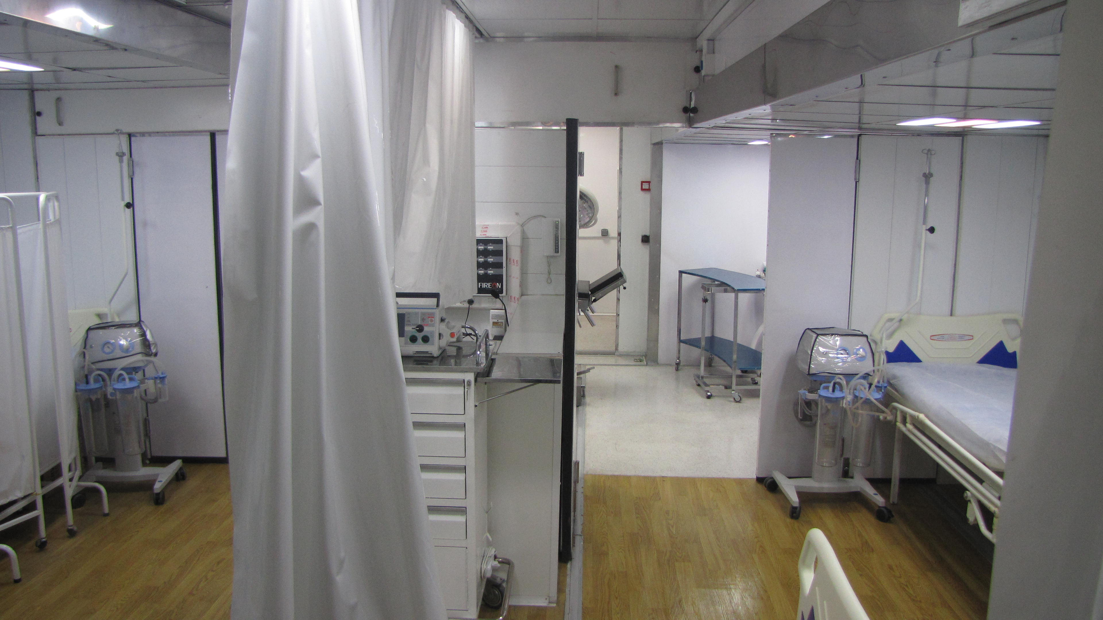 inside of a trailer mobile hospital